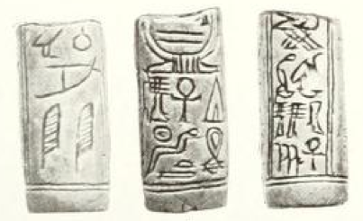 Cyclinder Seal of Sekhemrekhutawy khabaw, 1917 photography by Flinders Petrie.